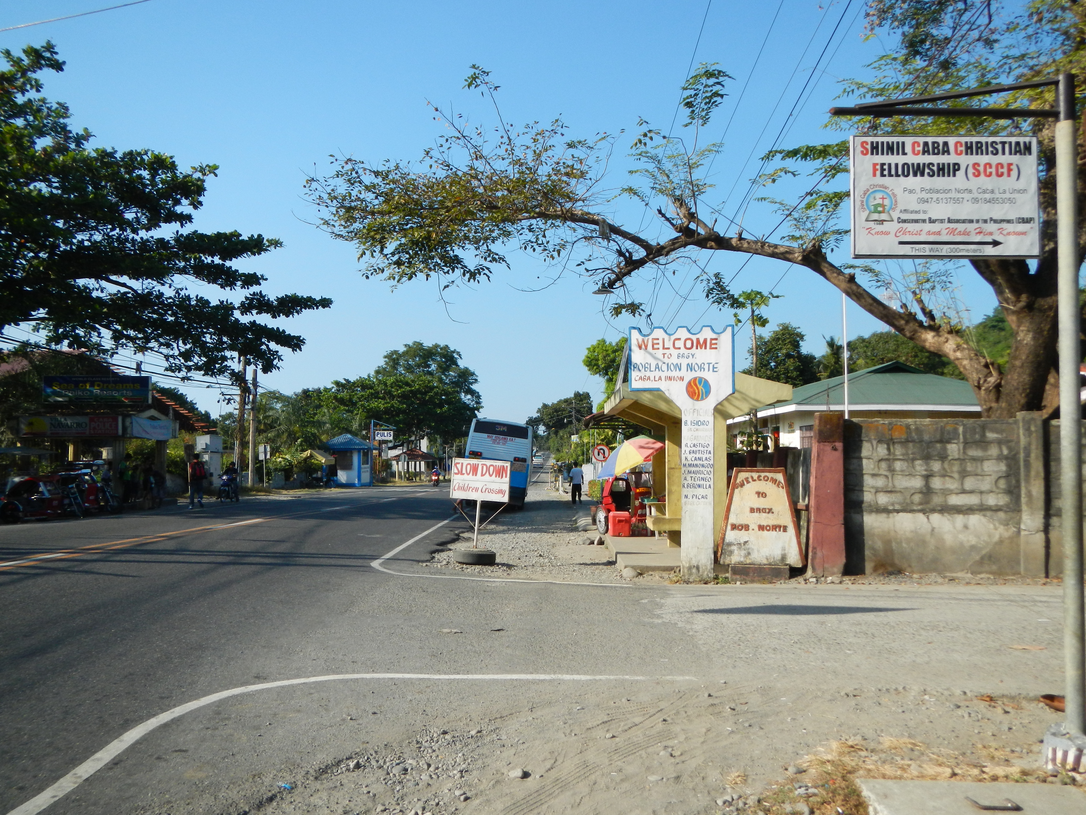 Poblacion Norte, Caba, La Union to San Cornelio, Caba, La Union San Cornelio Elementary School, Caba Tomato fields in Caba, La Union San Cornelio-San Gregorio-Sobredillo farm-to-market road Curves San Gregorio, Caba, La Union San Gregorio Elementary and National High Schools, Caba Kubota KH-70 Sobredillo Bridge Gana-Sobredillo Provincial Road Caba National Highway Caba Bridge K0 247+458 Category:Sitios and puroks of the Philippines Subdivisions of the Philippines List of barangays in La Union Barangays San Cornelio, Caba, La Union 16°27'16"N 120°21'56"E San Gregorio, Caba, La Union 16°26'28"N 120°22'5"E Sobredillo, Caba, La Union 16°25'26"N 120°21'40"E Gana, Caba, La Union 6°25'13"N 120°21'0"E Poblacion Sur 16°25'43"N 120°20'56"E Poblacion Norte 16°26'4"N 120°20'59"E Caba, La Union Silang Revolt (1762–1763) Ilocos Revolt of 1762-1763 Silang Revolt from or along Aspiras–Palispis Highway or Marcos Highway to MacArthur Highway or Manila North Road) Philippine highway network.